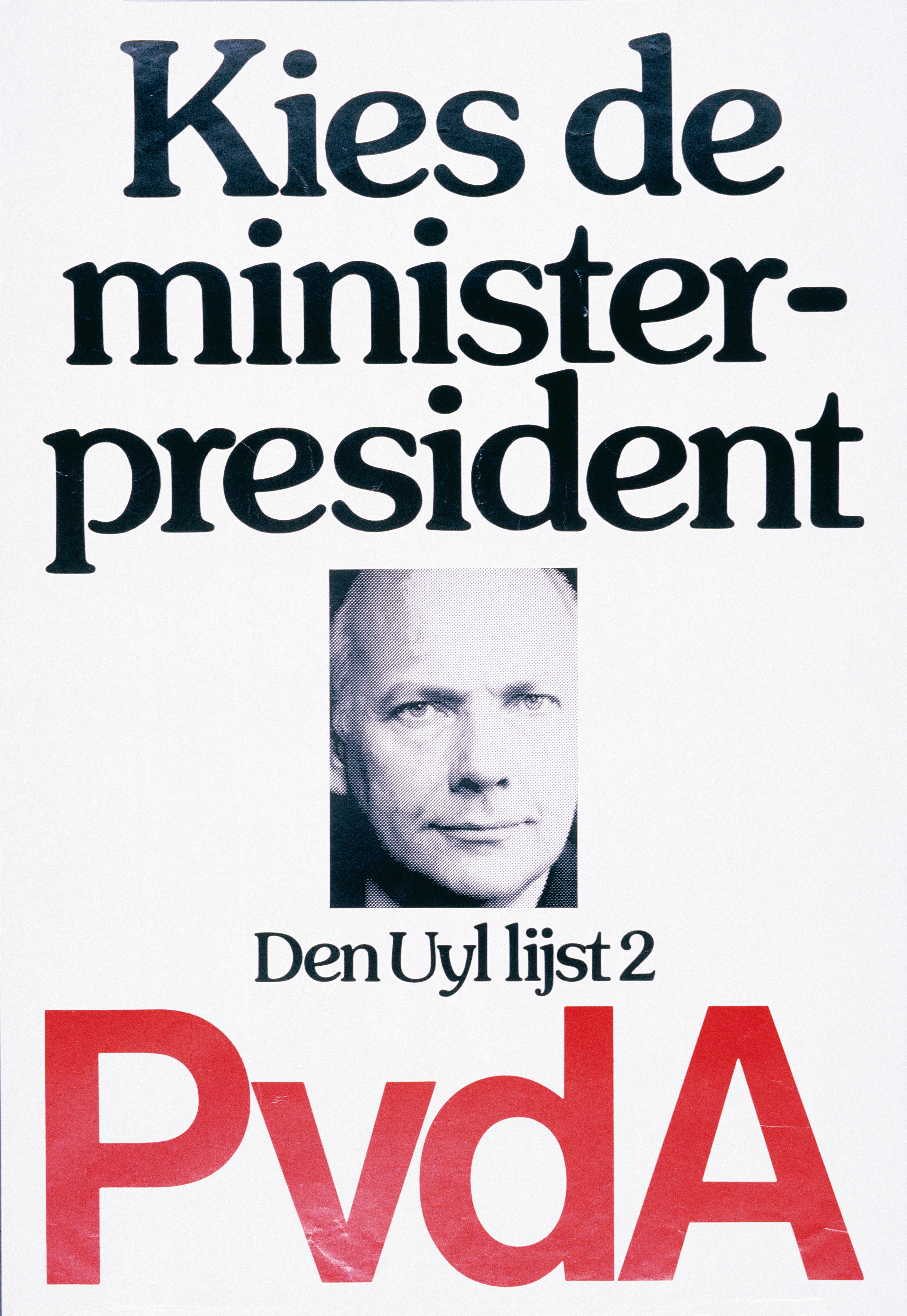 1977 general election poster for the Dutch Labor Party